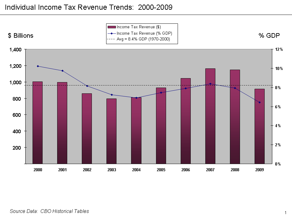 Federal income tax revenue trends $ and % GDP from 2000 to 2009 Contents 1 Explanation 2 Licensing 3 References 4 Original upload log Explanation According to the CBO historical tables:[1] Federal individual income taxes averaged 8.4% of GDP (a measure of the size of the economy) from 1970 to 2000. Since the Bush tax cuts in 2001 and 2003, federal individual income taxes have remained below the 8.4% GDP level (the average from 1970-2000) with the exception of 2007. Federal individual income tax dollars did not again reach their 2000 peak of $1.0 trillion until 2006, then dropped back below this level as the economy entered recession in 2009. 2009 federal individual income taxes of 6.4% of GDP were the lowest level since at least 1968.